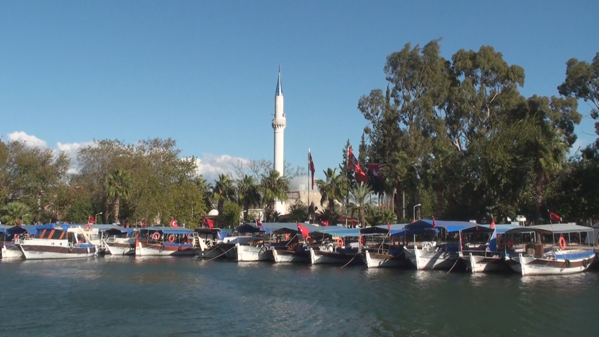 Dalyan port and the old mosque